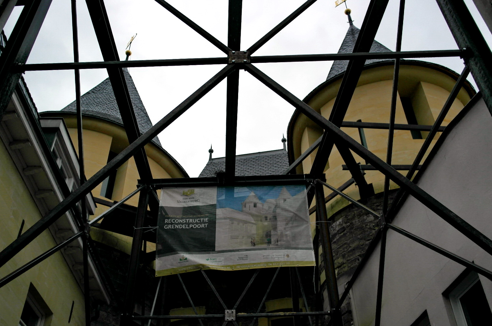 Valkenburg, Limburg, the Netherlands. View from Grendelplein of Grendelpoort, a former city gate under renovation in 2014.